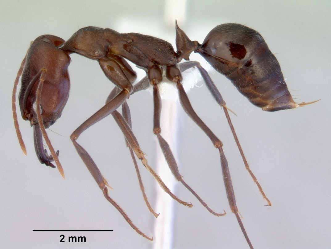 Profile view of ant Odontomachus turneri specimen casent0172405.